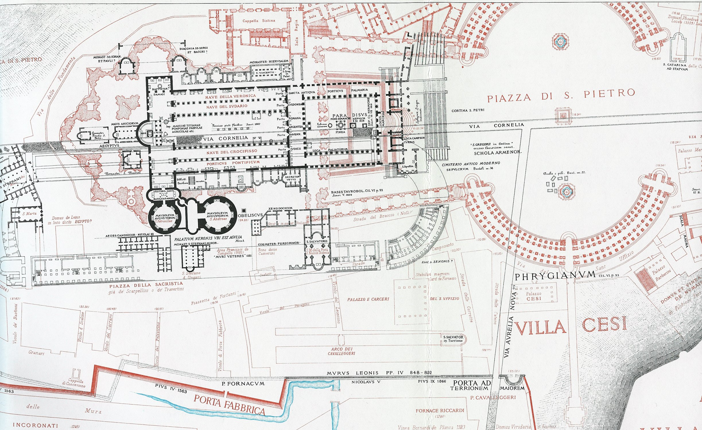 Apostolic Palace and St. Peter's Basilica